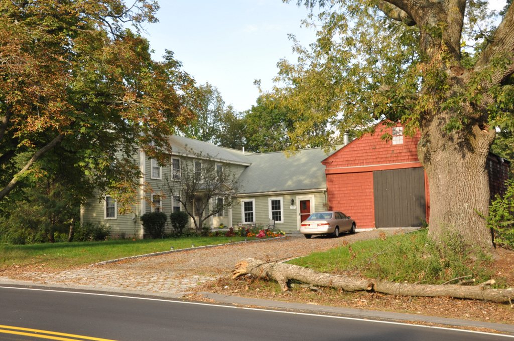 House at 642 Woburn Street in Wilmington, Massachusetts. A Historic contributing property to the Gowing-Sheldon Historic District.